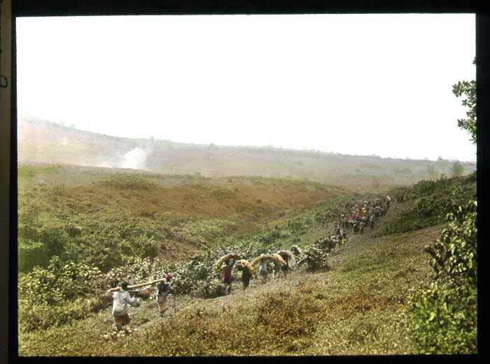 Safari carrying down skin, skulls, and tusks of elephants from Mt. Kenya. Carl Akeley's caravan in Uganda. 1906. Name of Expedition: British East Africa Participants: Carl Akeley Expedition Start Date: October 8, 1905 Expedition End Date: December 21, 1906 Purpose or Aims: Zoology Mammals Location: Africa, Uganda, Mount Kenya Original material: Hand-colored glass lantern slide Digital Identifier: CSZ20244_LS Learn more about The Field Museum's Library Photo Archives.